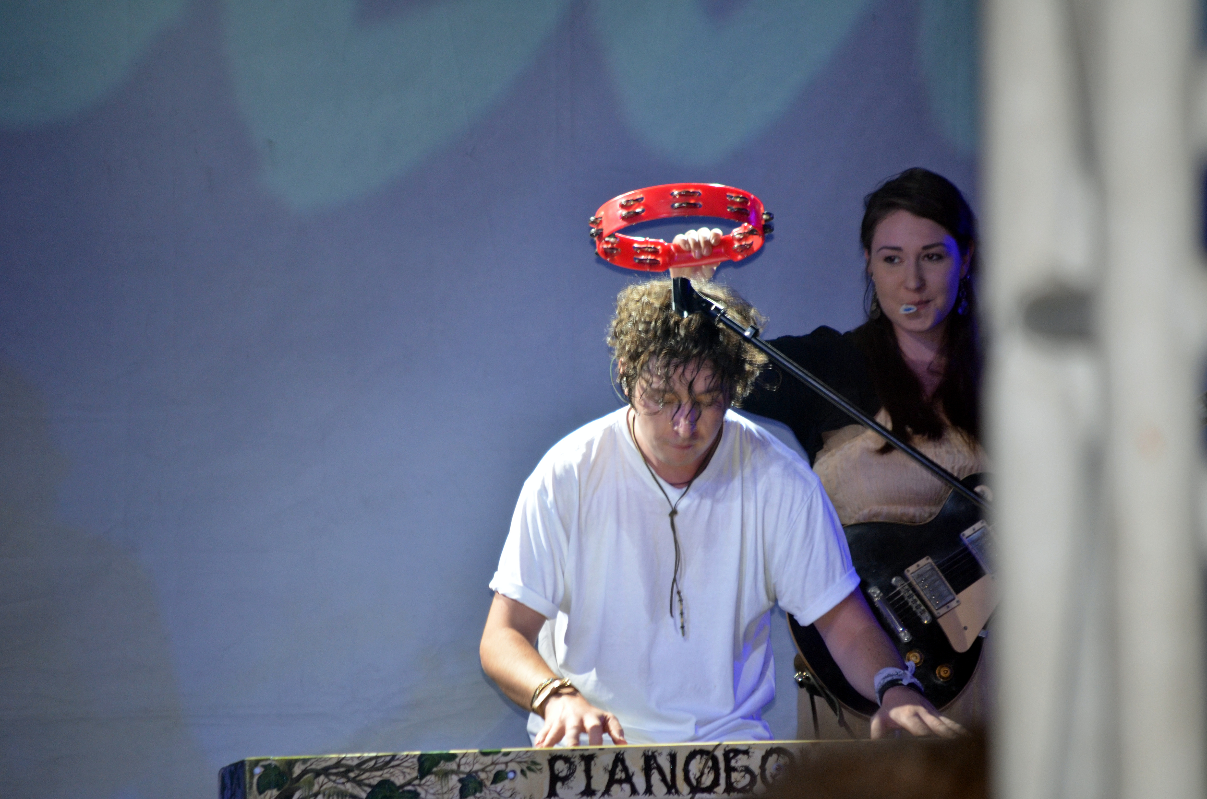 Pianoboy in the Green Theatre